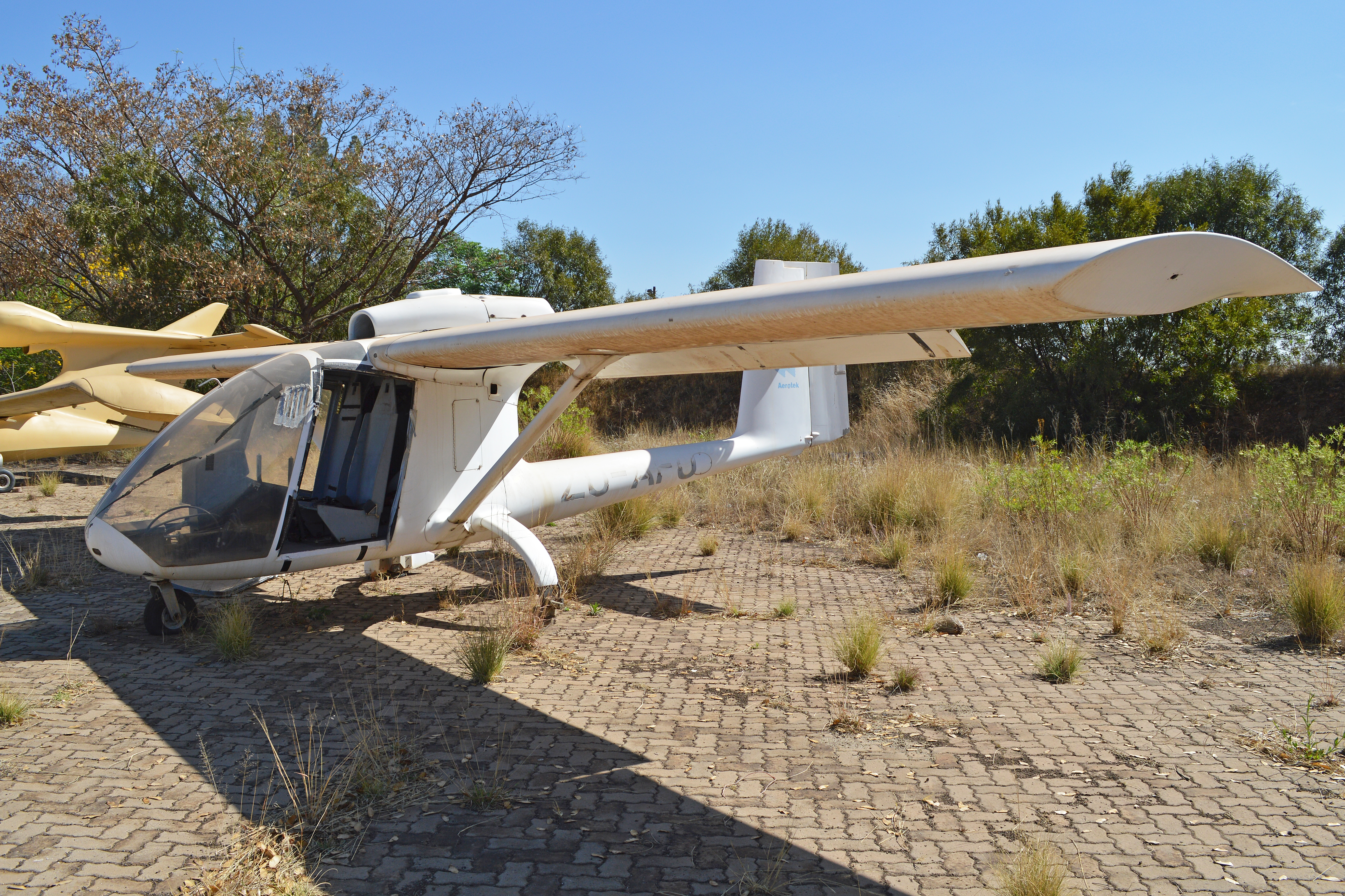 c/n 001. The Humingbird was a lightweight all-composite observation aircraft designed to replace some helicopter roles. It had a short take-off and landing run and could easily be dismantled for ground transport. The South African Council for Industrial Research (CSIR) founded the project under the ‘Aerotek’ name. The idea didn’t catch on and only one was built. After years of storage it has now been saved and is on display at the South African Air Force Museum, Swartkop AFB, Pretoria, South Africa. 19-9-2014